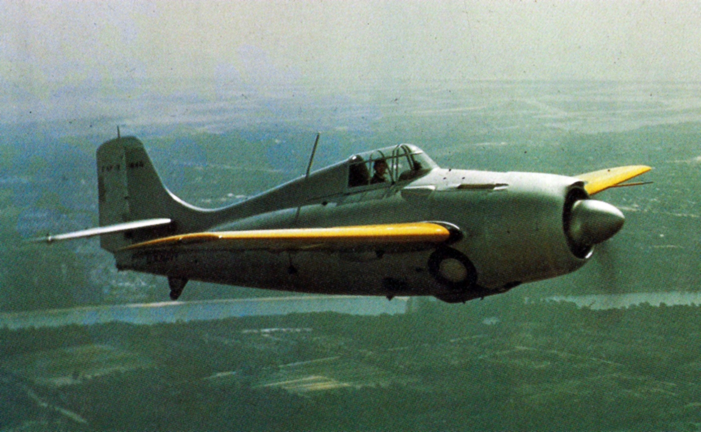 The second production U.S. Navy Grumman F4F-3 Wildcat (BuNo 1845) in flight in the summer of 1940. Note the prop spinner and the cowl guns, which were deleted from later production aircraft.